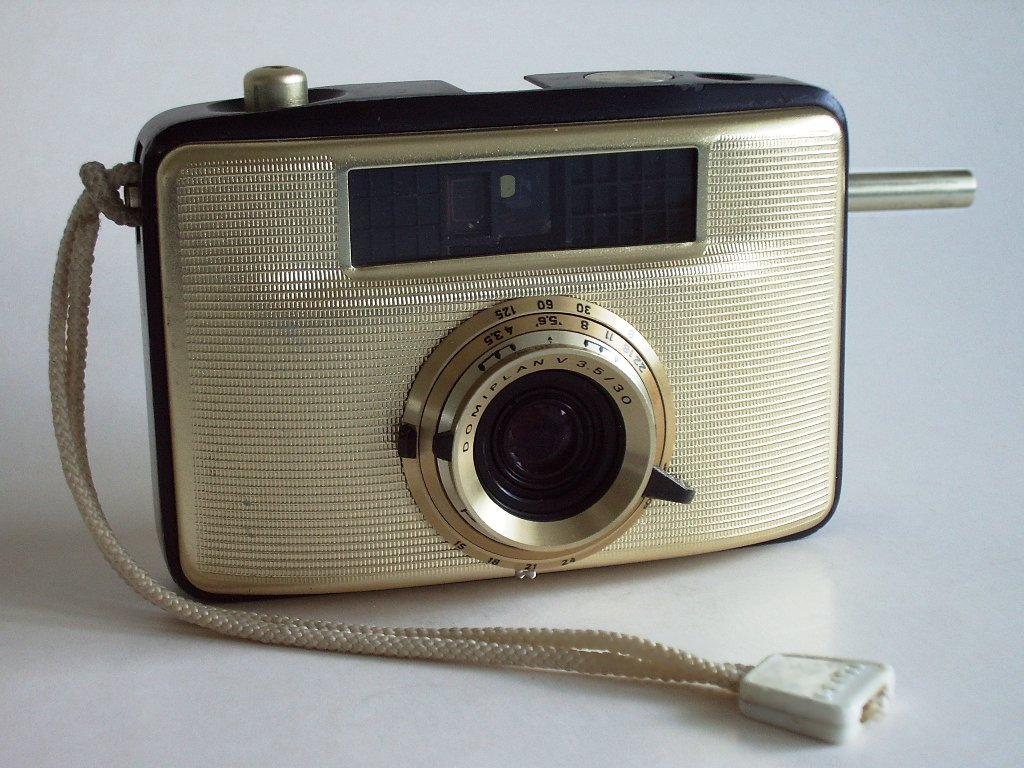 Pentacon Penti II. Very compact half-format (18x24mm) camera. Built-in selen exposure meter needle in viewfinder mechanically coupled with manual exposure time and aperture control. Manual focus. Film loading system compatible with Agfa Rapid. Made in former German Democratic Republic (G.D.R. = East Germany).